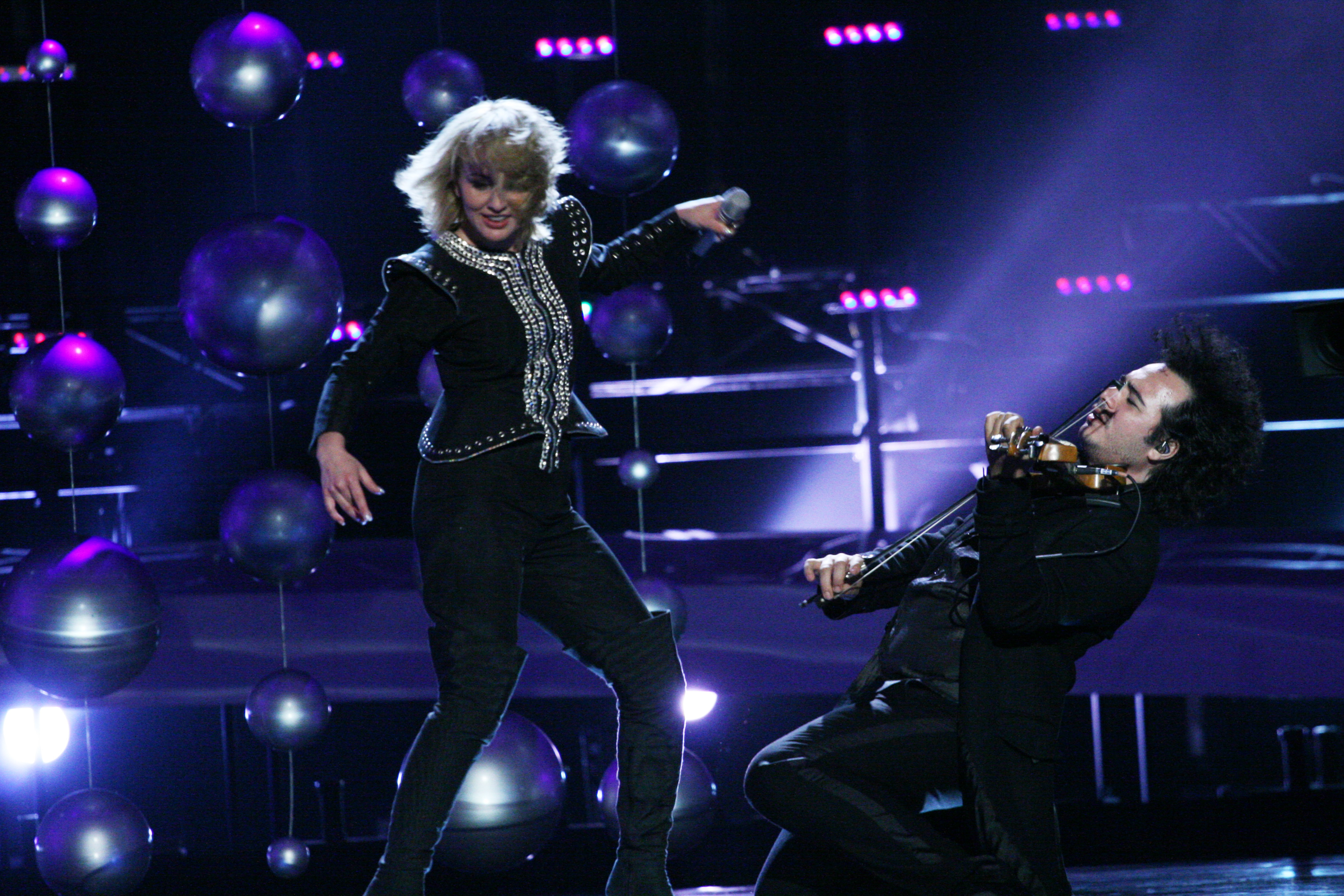 Juliana Pasha representing Albania at Eurovision Song Contest 2010, Oslo, Norway.